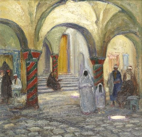 The El-Berka Marketplace, Tunis